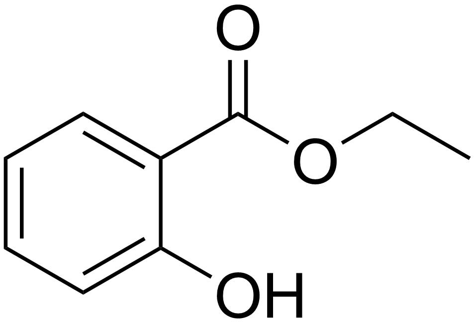 chemical structure of ethyl salicylate